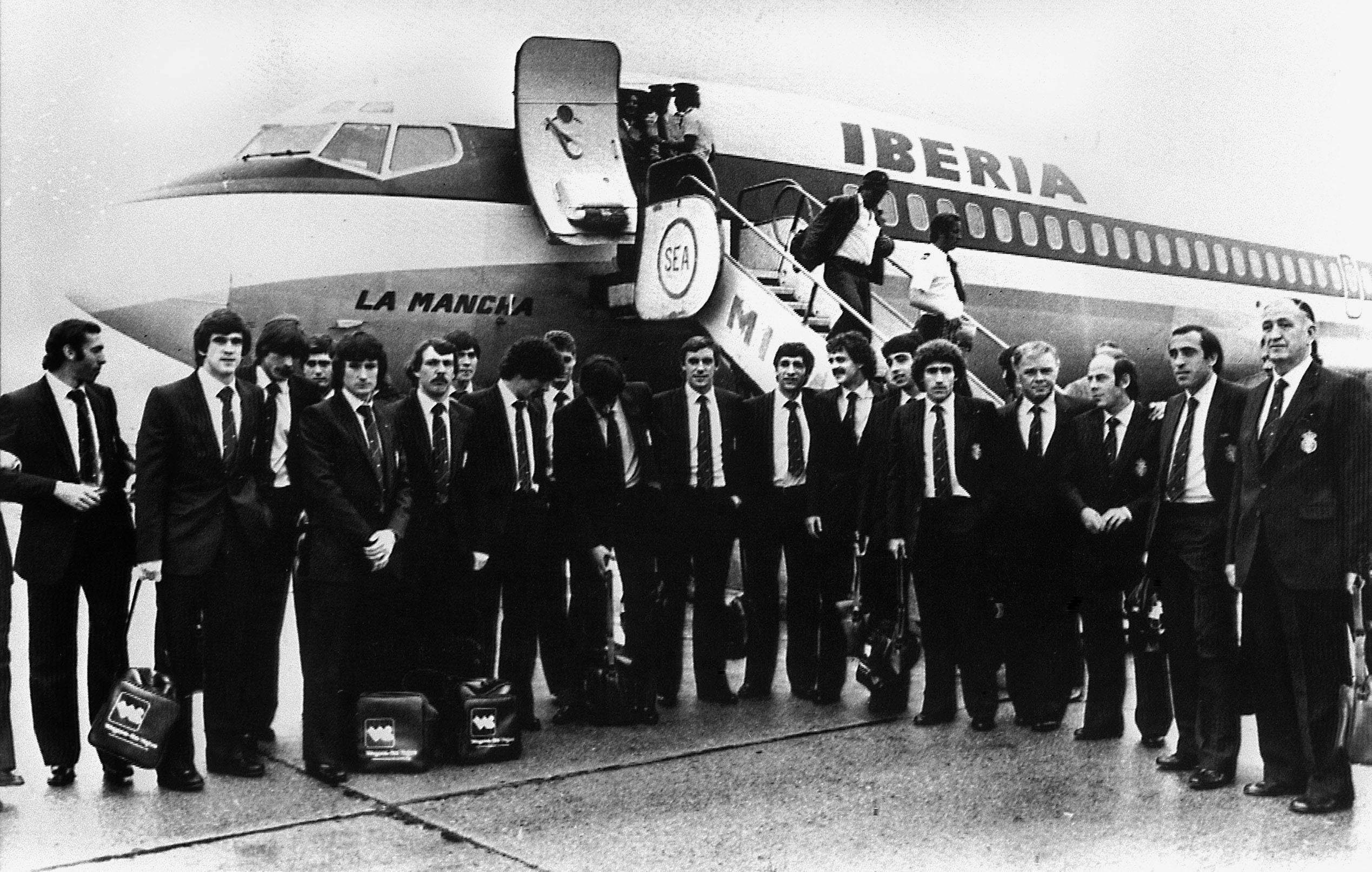 Spain's National Soccer Team. The team upon arrival in Milan, Italy, where Spain played in the European Soccer Championship on June 9, 1980.